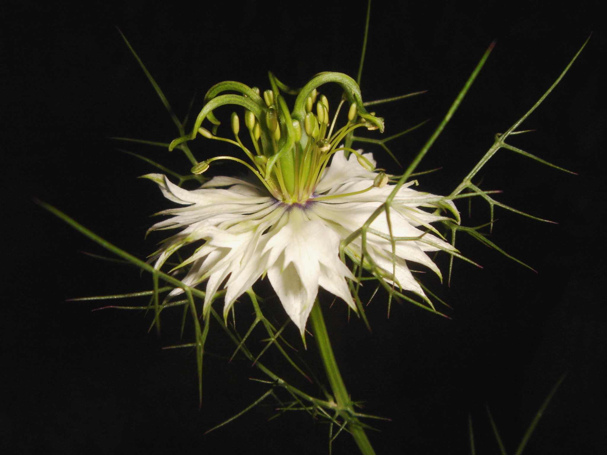 Nigella damascena-white, Love in a Mist